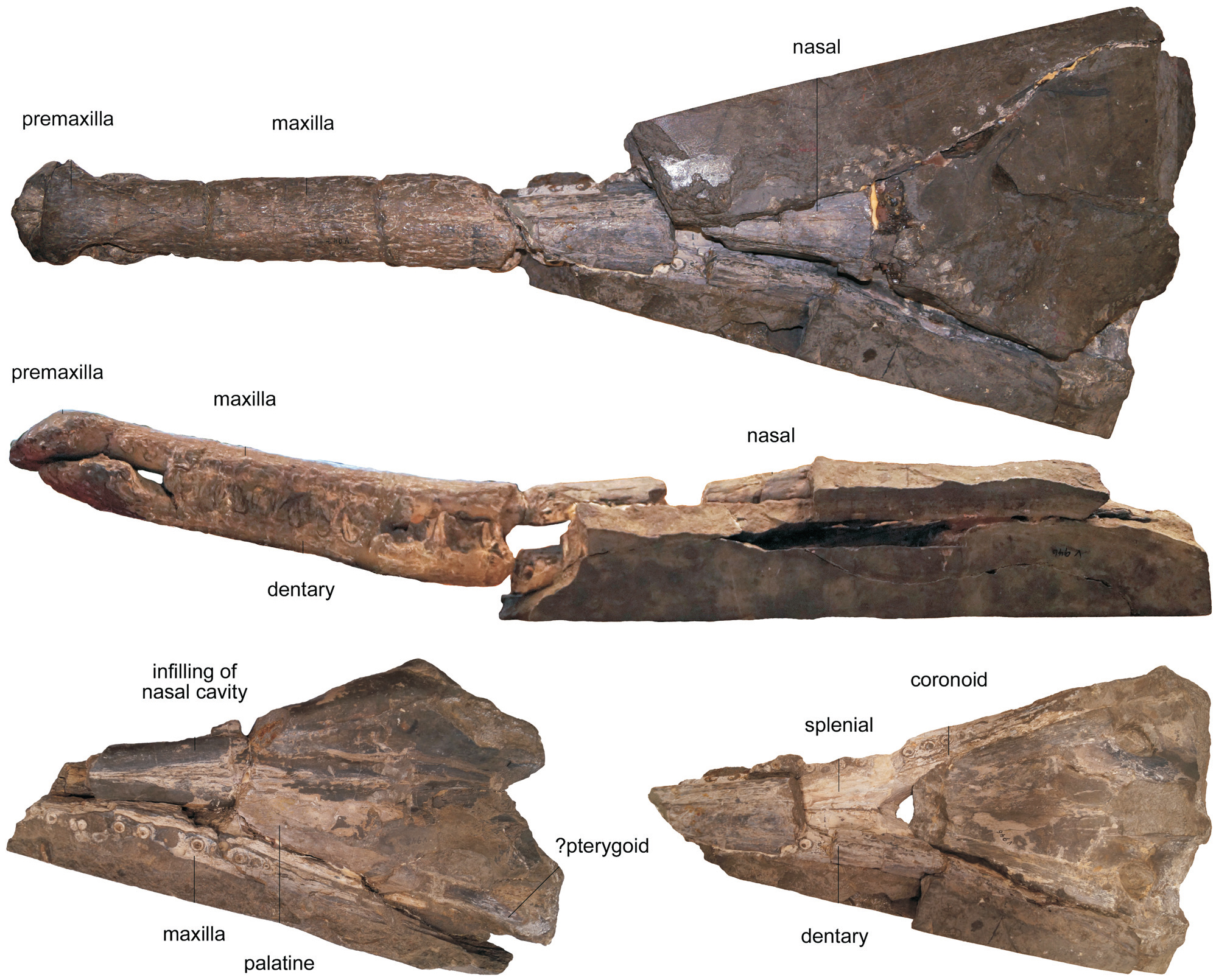 Teleosauroid thalattosuchian Mystriosaurus laurillardi Kaup, 1834 (HLMD V946-948, holotype), lower Toarcian of Altdorf (southern Germany); skull in dorsal (A1) and lateral (A2) views, midsection of the skull in ventral view (A3), and of the mandible in dorsal view (A4).